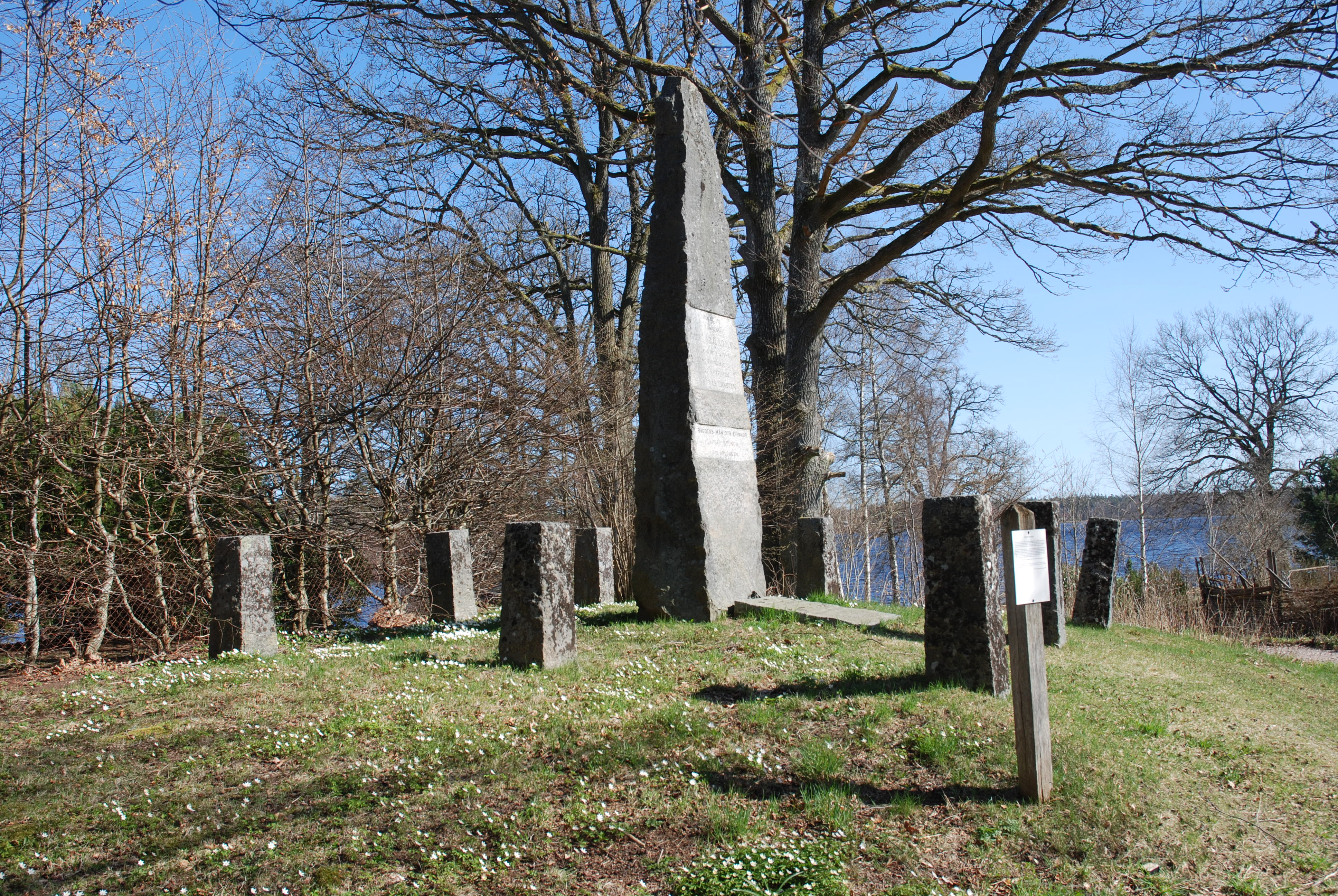 Monument, Battle of Vittsjö, Sweden, 1612 Monument raised February 11, 1911